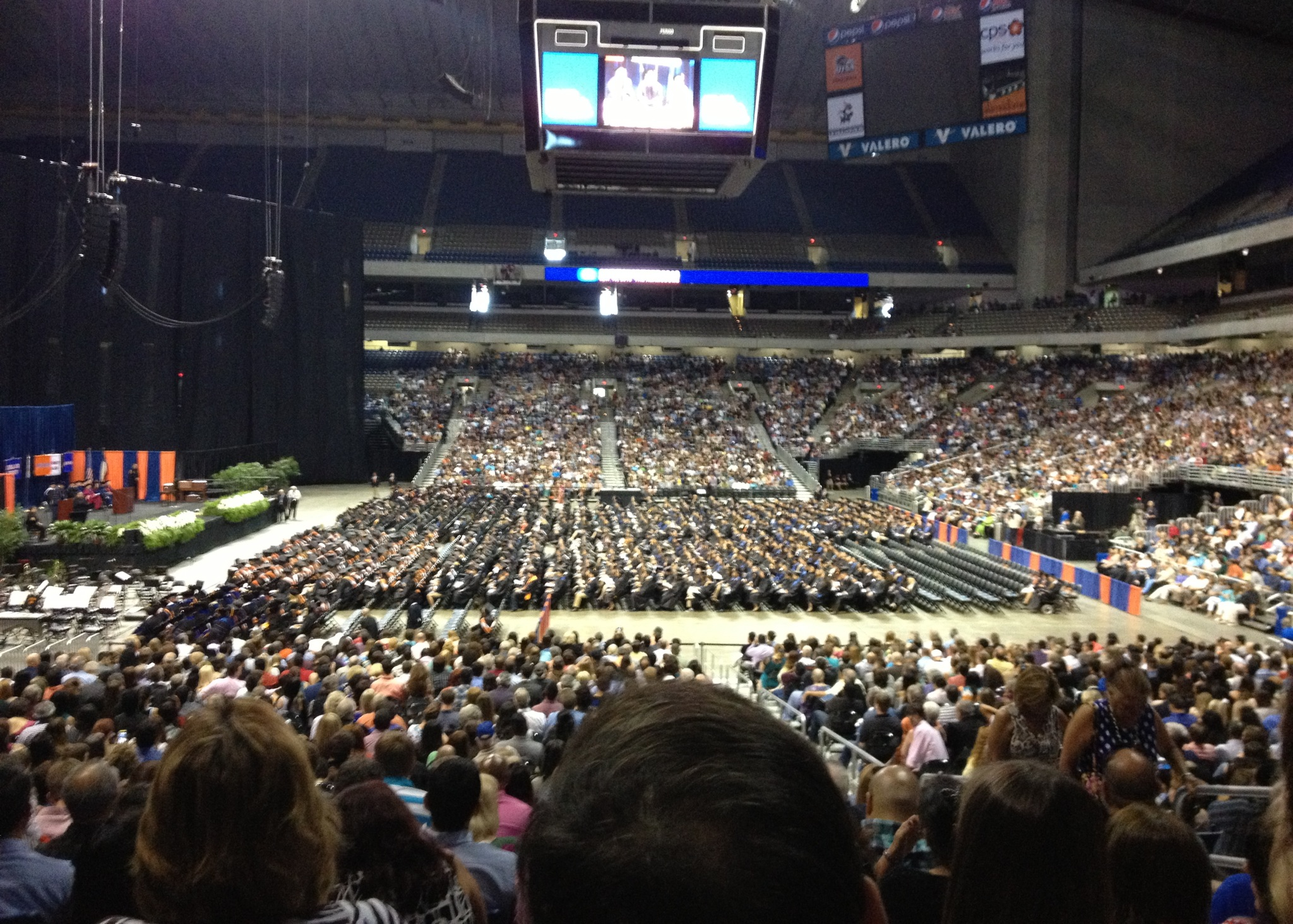 Commencement during May 2013 in the Alamodome